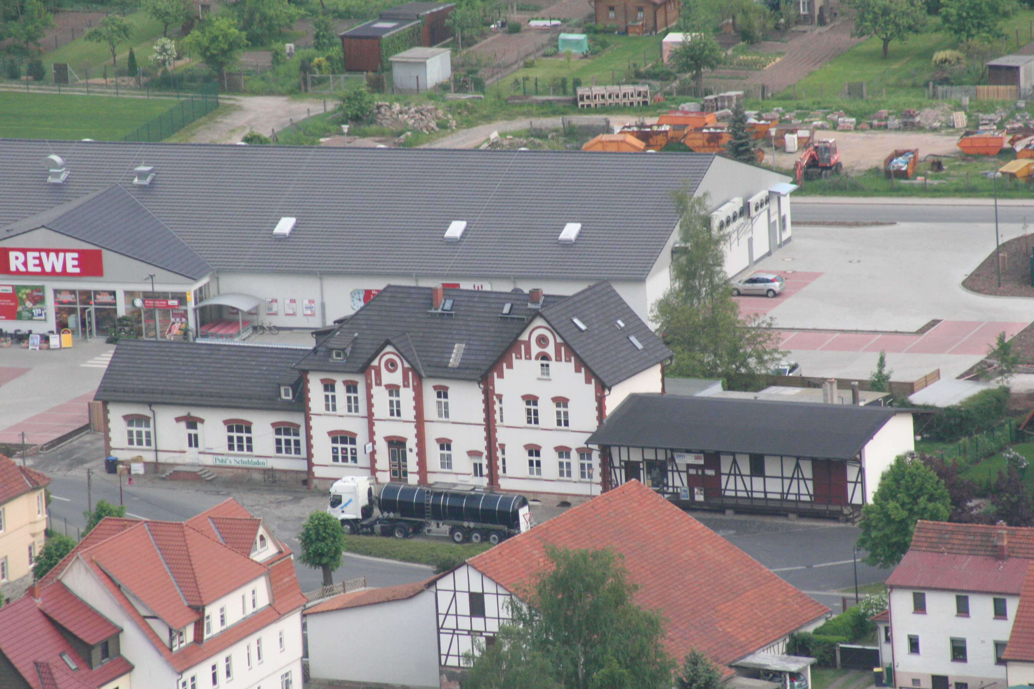 Bahnhof Treffurt im Jahre 2008 , Ansicht von Norden (Adolfburg)